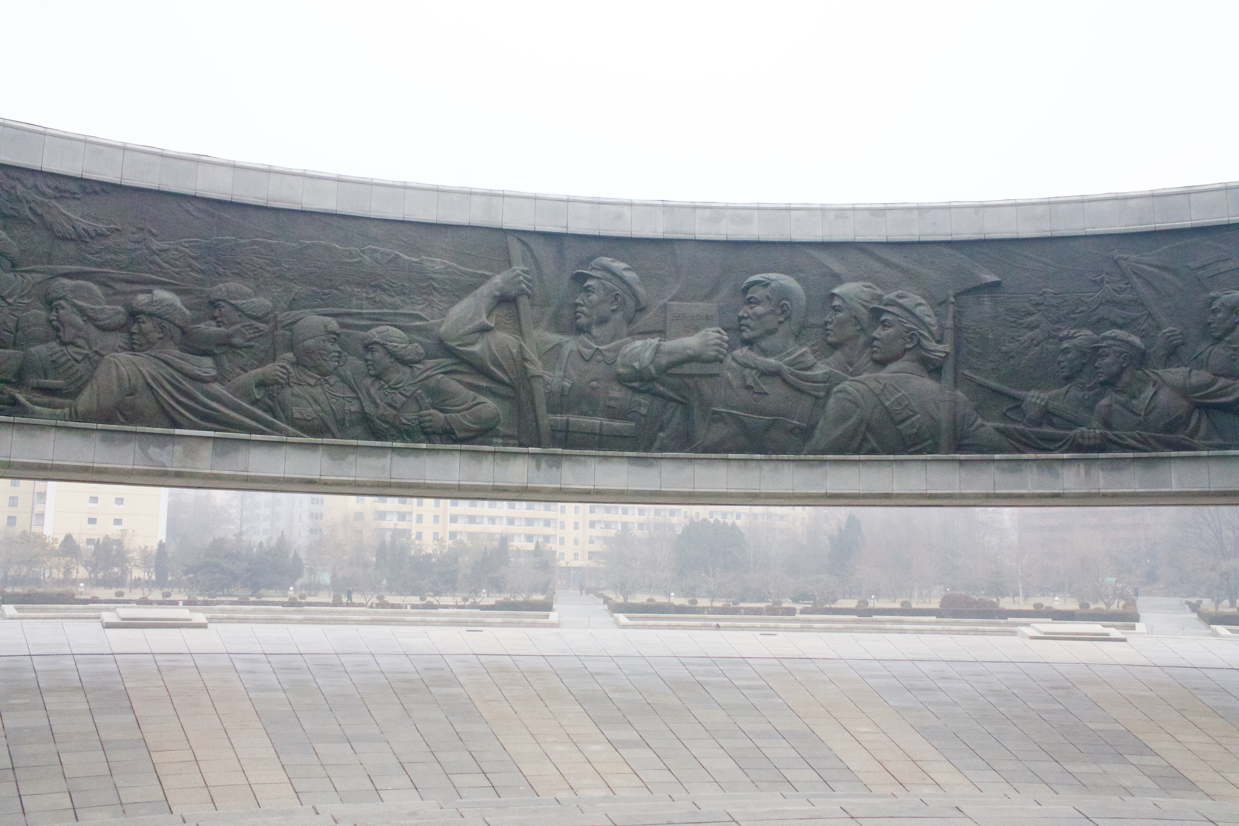 Monument to Party Founding